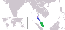 Map of SE Asia with Malay Peninsula highlighted